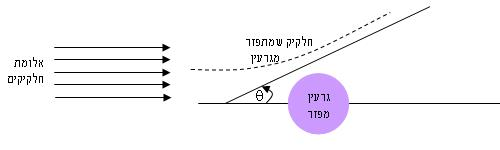 Scattering cross section